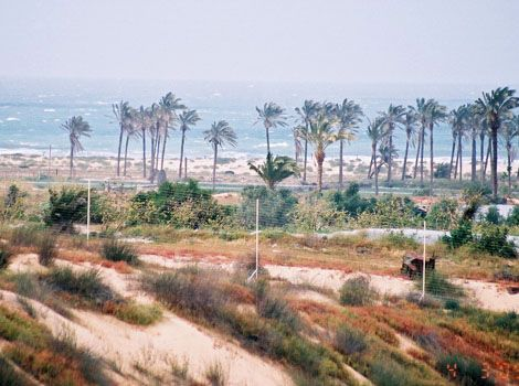 Sand dunes near the sea, Gush Katif, Gaza Strip.